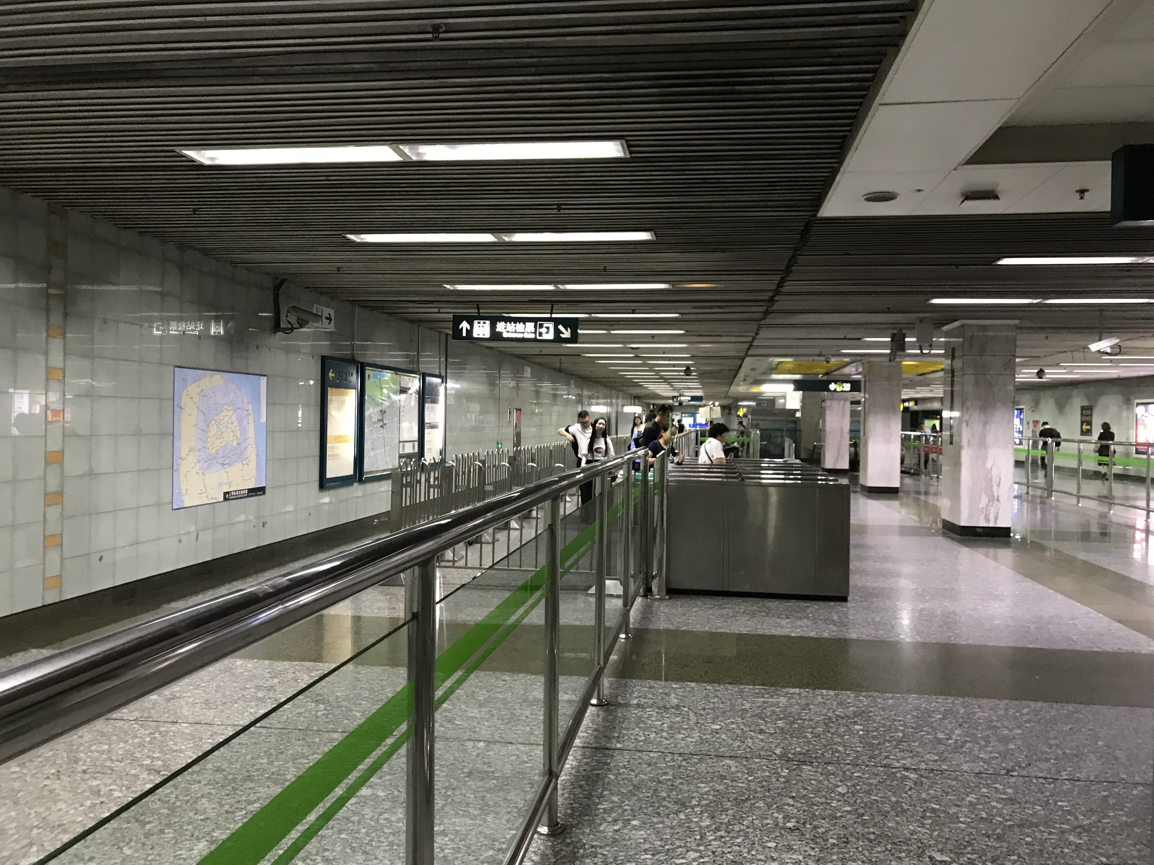 201908 Concourse of Century Park Station